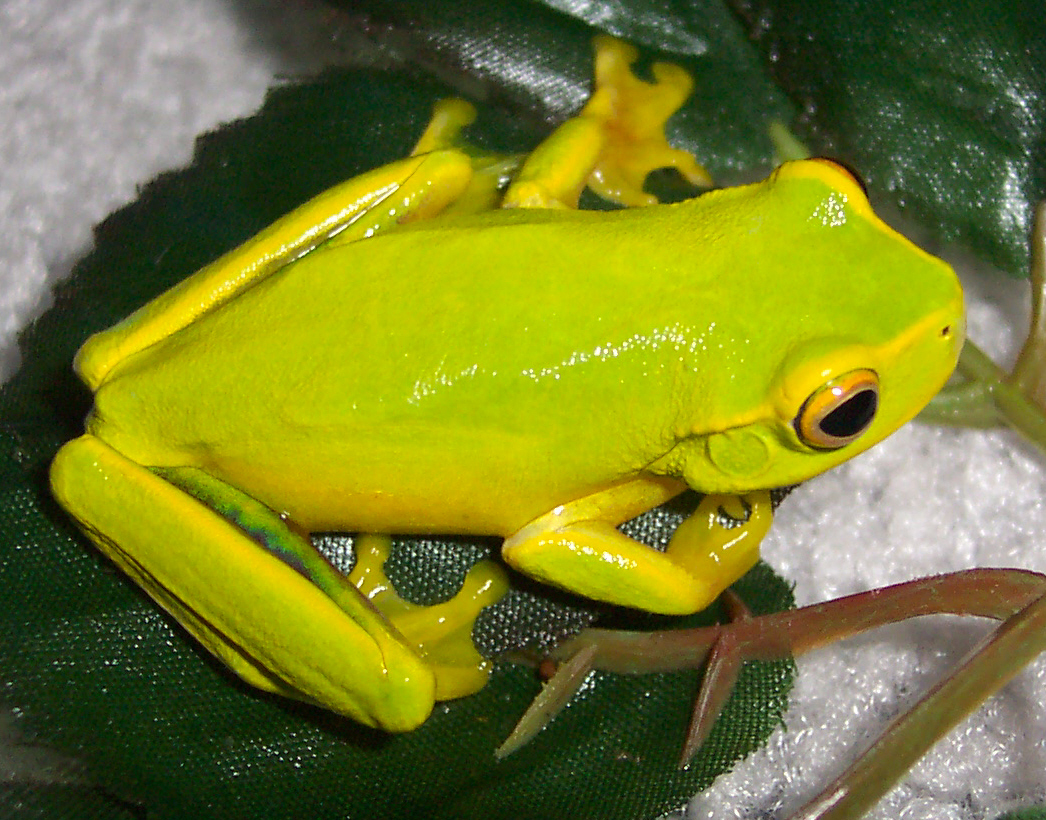 A Dainty Green Tree Frog (Litoria gracilenta) one of the most common frogs to become lost.